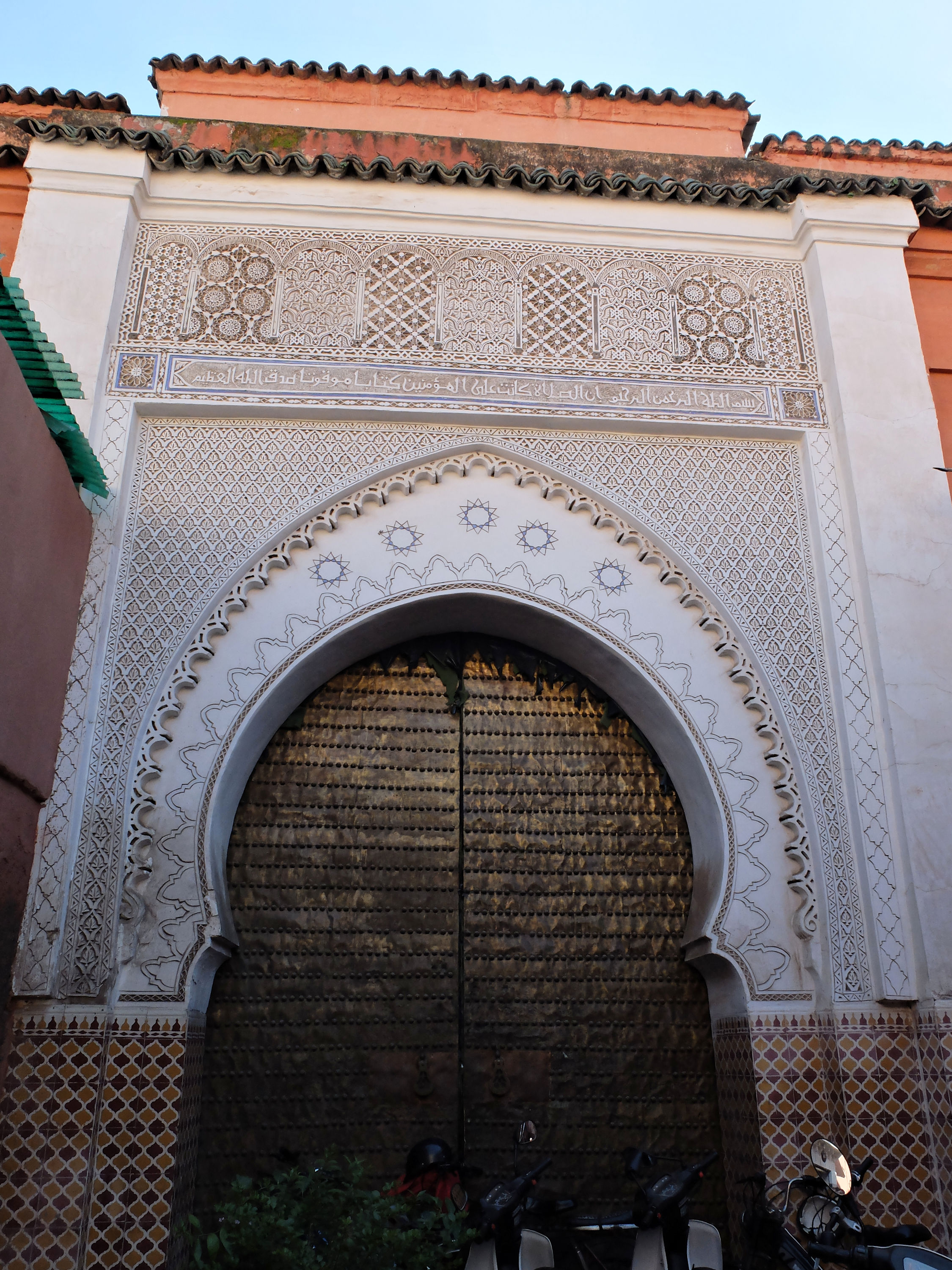 Northern gate of the Mouassine Mosque, Marrakech.